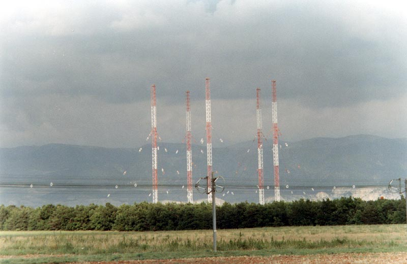 Lattice Masts of the medium wave transmitter Roumoules (Provence-Alpes-Côte d'Azur.